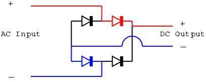 Diagram of bridge rectifier 2